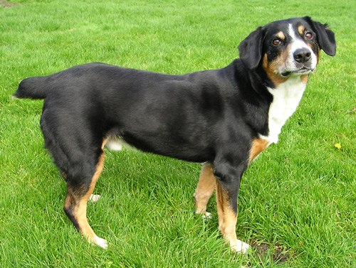 Entlebucher Sennenhund named "Max", full body photo. Taken Feb 22,2004 at the SMART/USDAA dog agility competition in Salinas, CA.